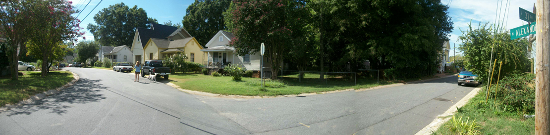 North Charlotte's Neighborhood in Mecklenburg Mill Village Houses